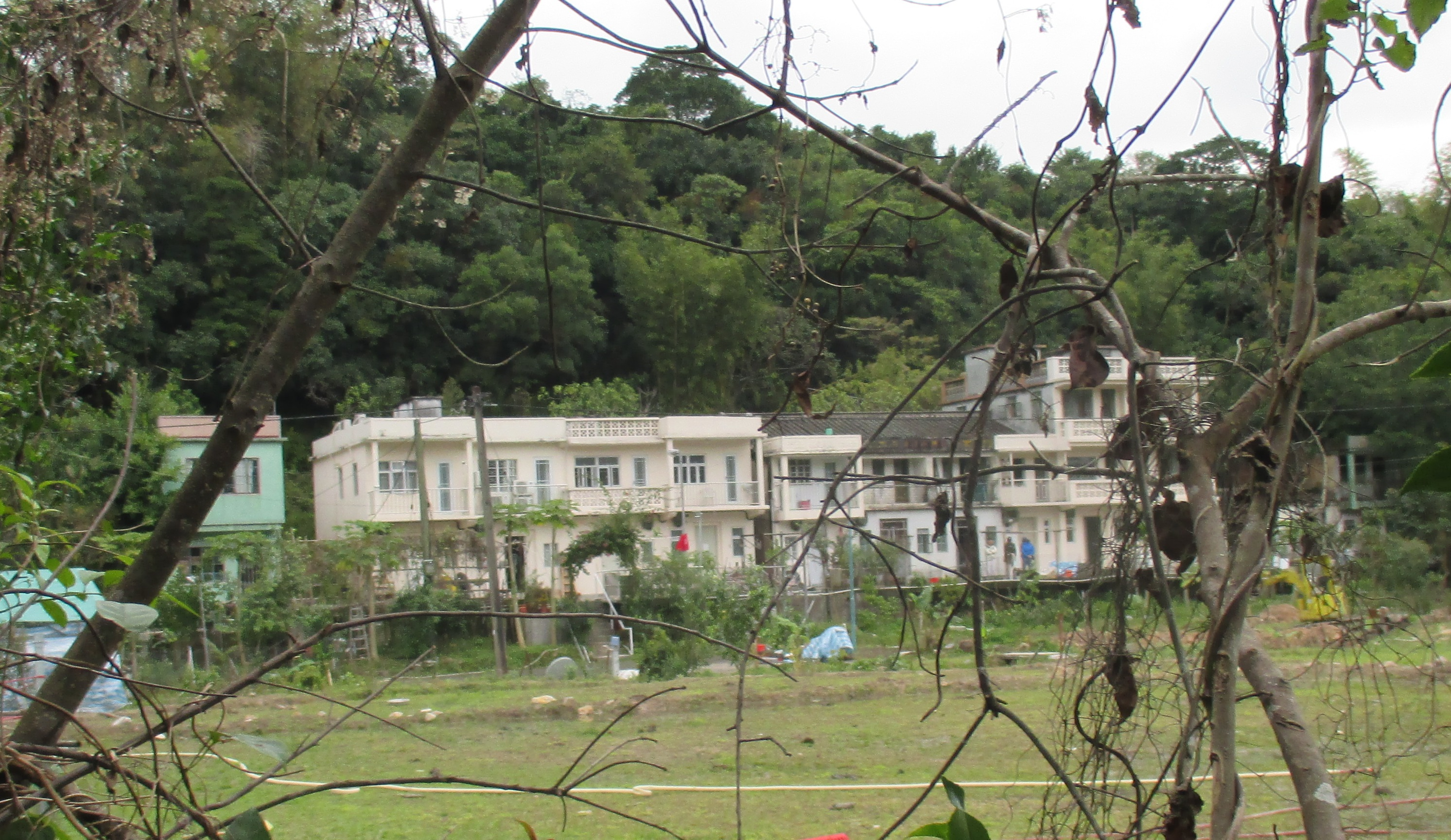 View of Kau Tam Tso, a village in North District, Hong Kong. Next to Plover Cove Country Park.